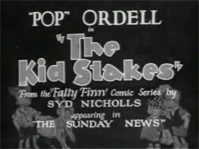 Title screen of The Kid Stakes (1927) Australian silent comedy film written and directed by Tal Ordell. Available online at Director: Tal Ordell Producer: Tal Ordell Production Company: Ordell-Coyle Productions Audio/Visual: Silent, B/W